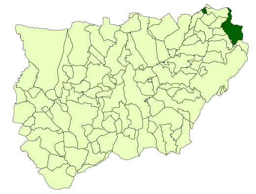 Situation of the municipality of Siles (Jaén, Spain).